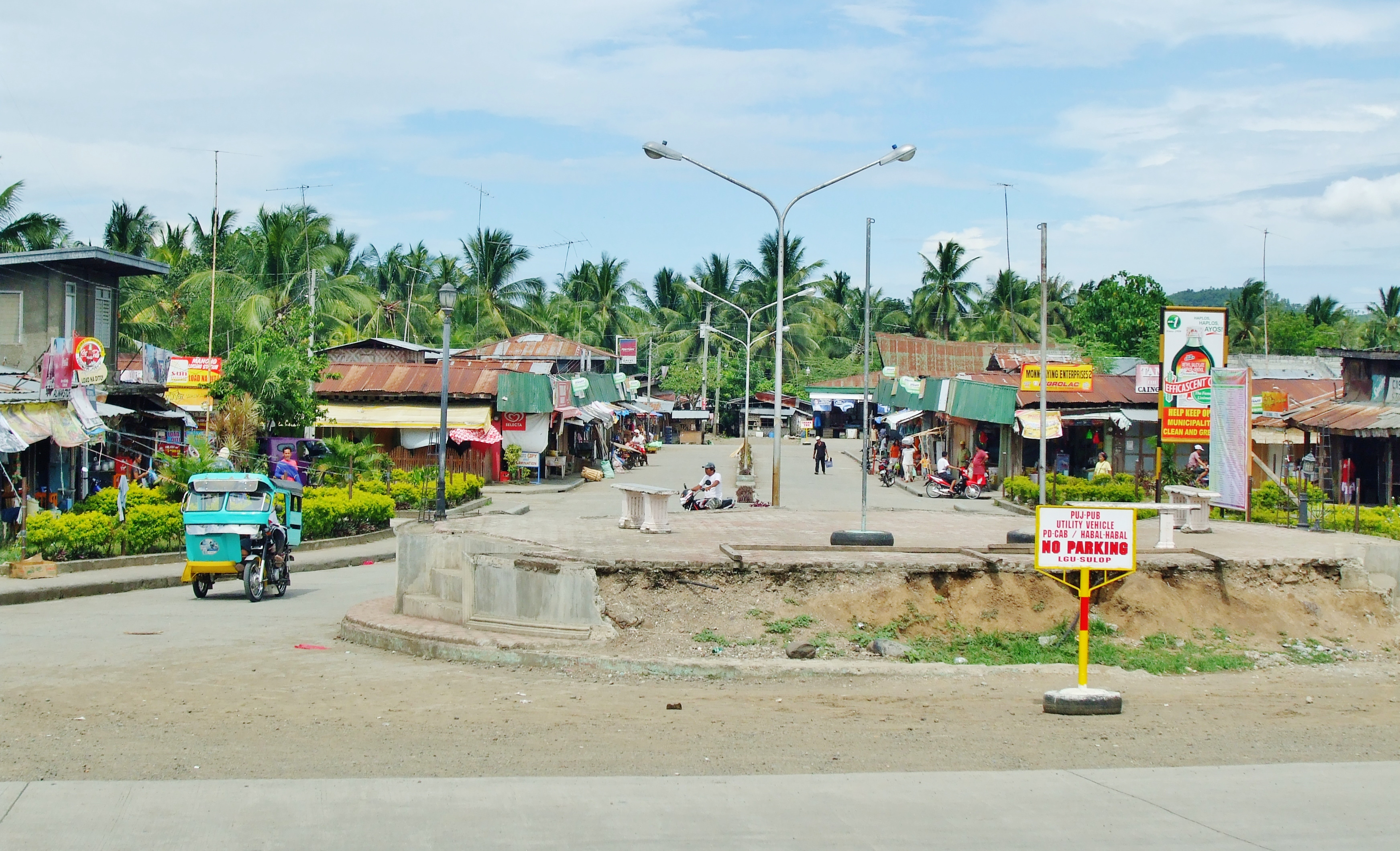 Town of Sulop